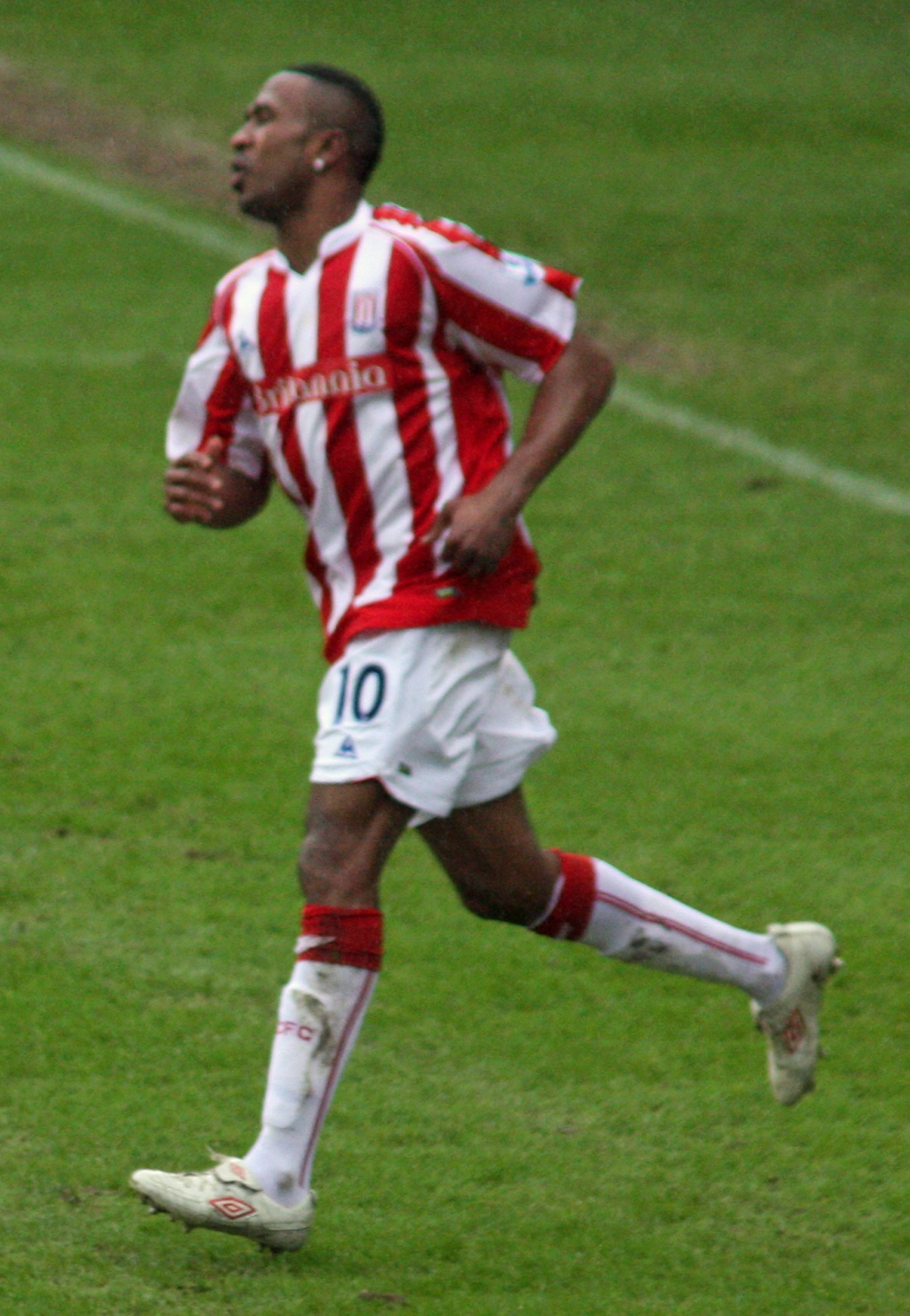 Stoke City FC V Arsenal 28